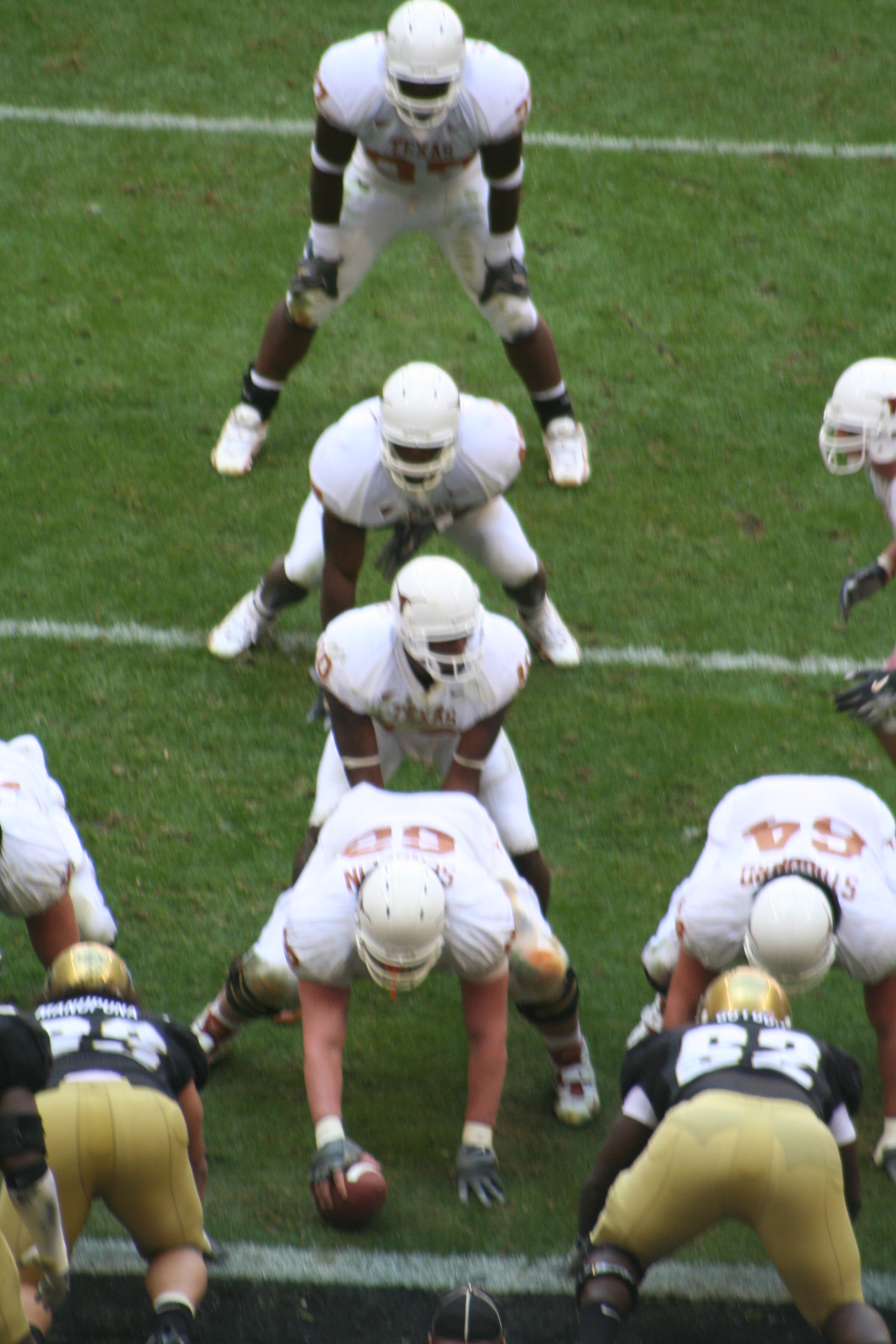 The University of Texas at Austin college football team in the I formation. Photo by Johntex 2005. Hi3